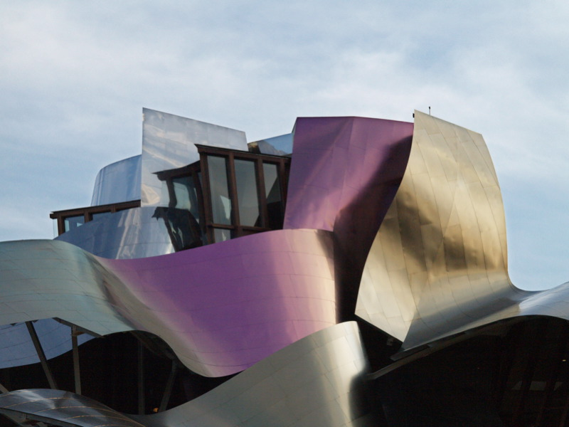 Bodega Marques del Riscal, a wine cellar and hotel designed by Frank Gehry, at Elciego (Basque: Eltziego), Álava, in the Basque Country, northern Spain.